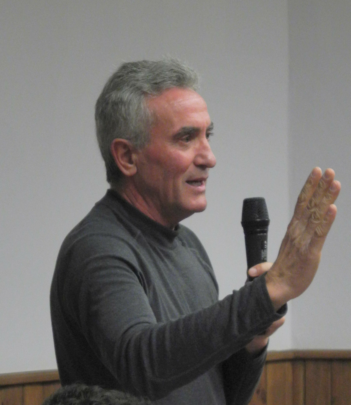 Diego Cañamero, Andalusian syndicalist, during an assembly in 2012. Image cropped from original, published in Flickr under CC 2.0 by-sa license.